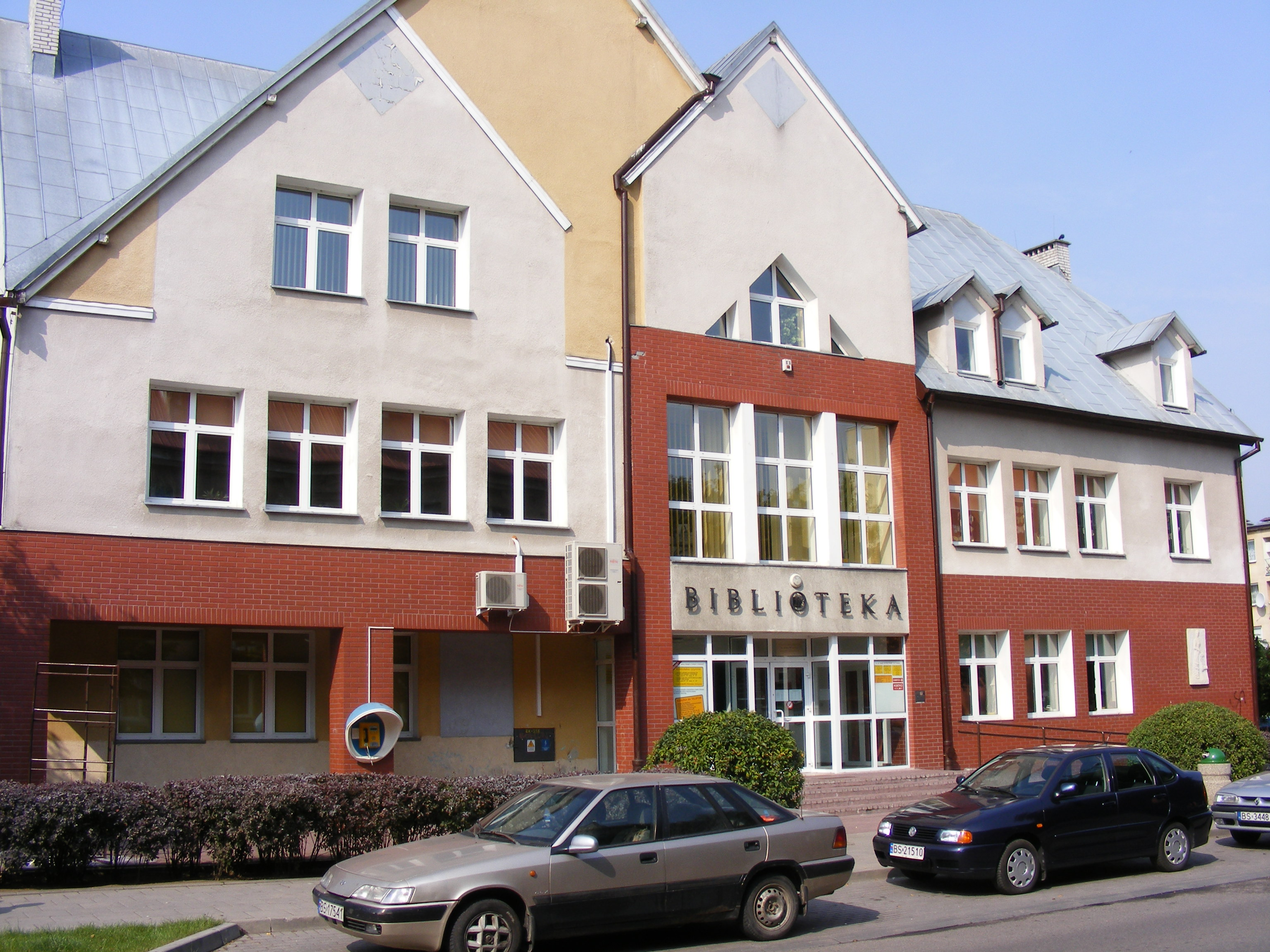 Public library in Suwałki.